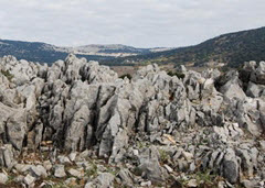 Stone field (karren), Lapiaz de los Lanchares, in the Subbeticas geopark, South of Cordoba, Andalusia, Spain. An example of carstic landscape.